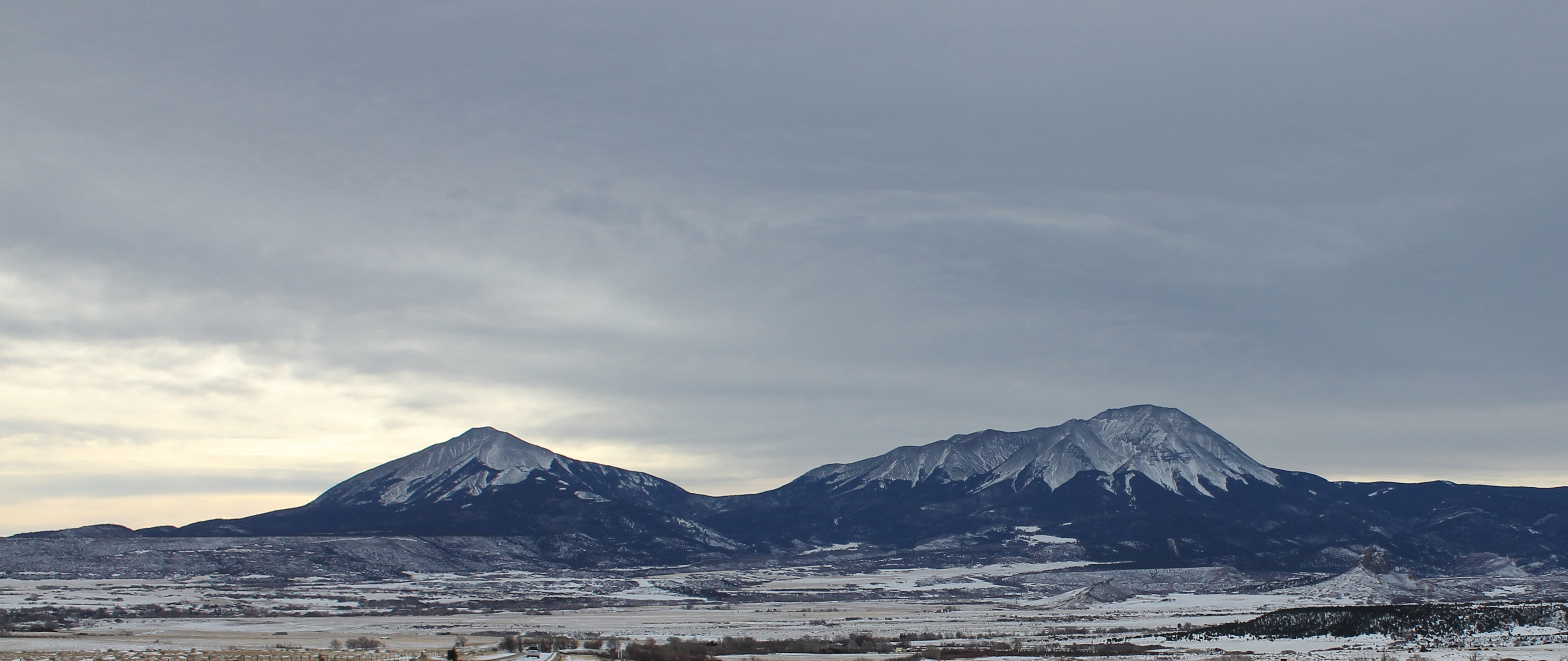 The Spanish Peaks in Huerfano County, Colorado.